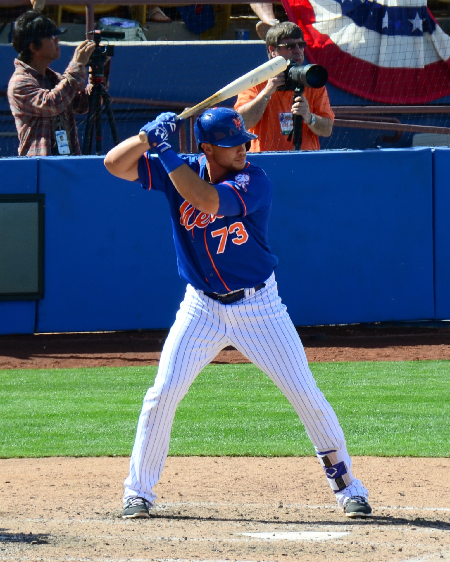 Travis Taijeron of the New York Mets takes an at-bat, April 1, 2016.